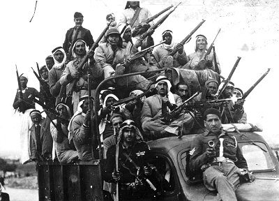 Arab volunteers fighting in Palestine in 1947. They should be Jihad al-Muqadas fighters in Jerusalem